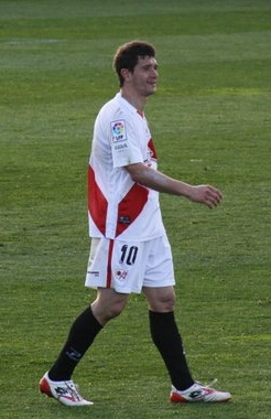 This photo was taken during the match Villarreal C.F. B - Rayo Vallecano played in Vila-real (Castellón), last March 5th, 2011.